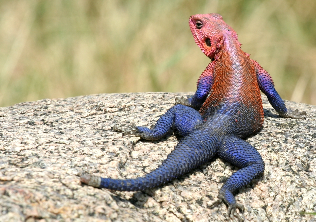 Agama Lizard, very common lizard found in Eastern Africa